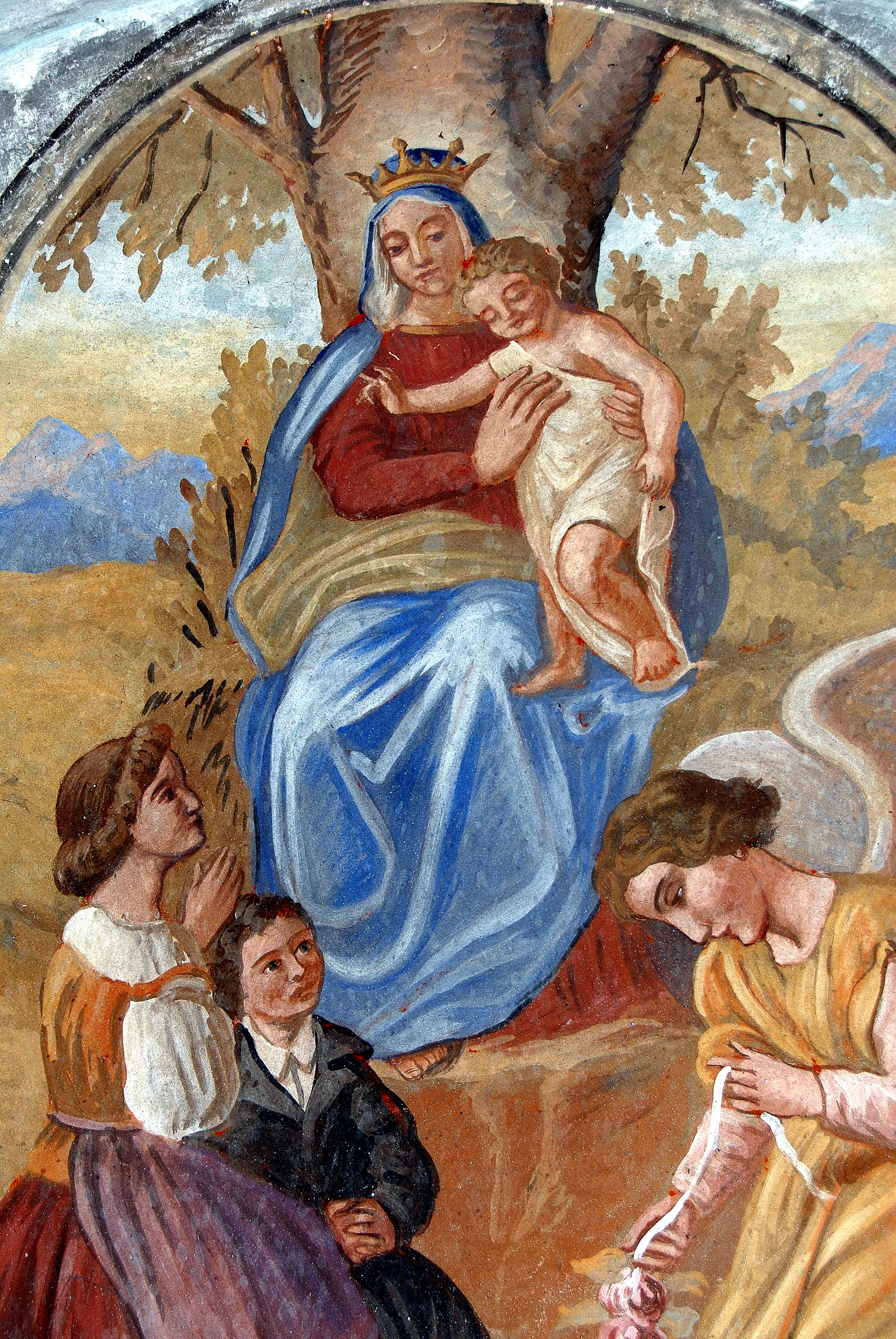 Altar painting in the forest chapel "Maria Waldesruh" at Tschachoritsch, municipality Köttmannsdorf, district Klagenfurt Land Carinthia / Austria / EU